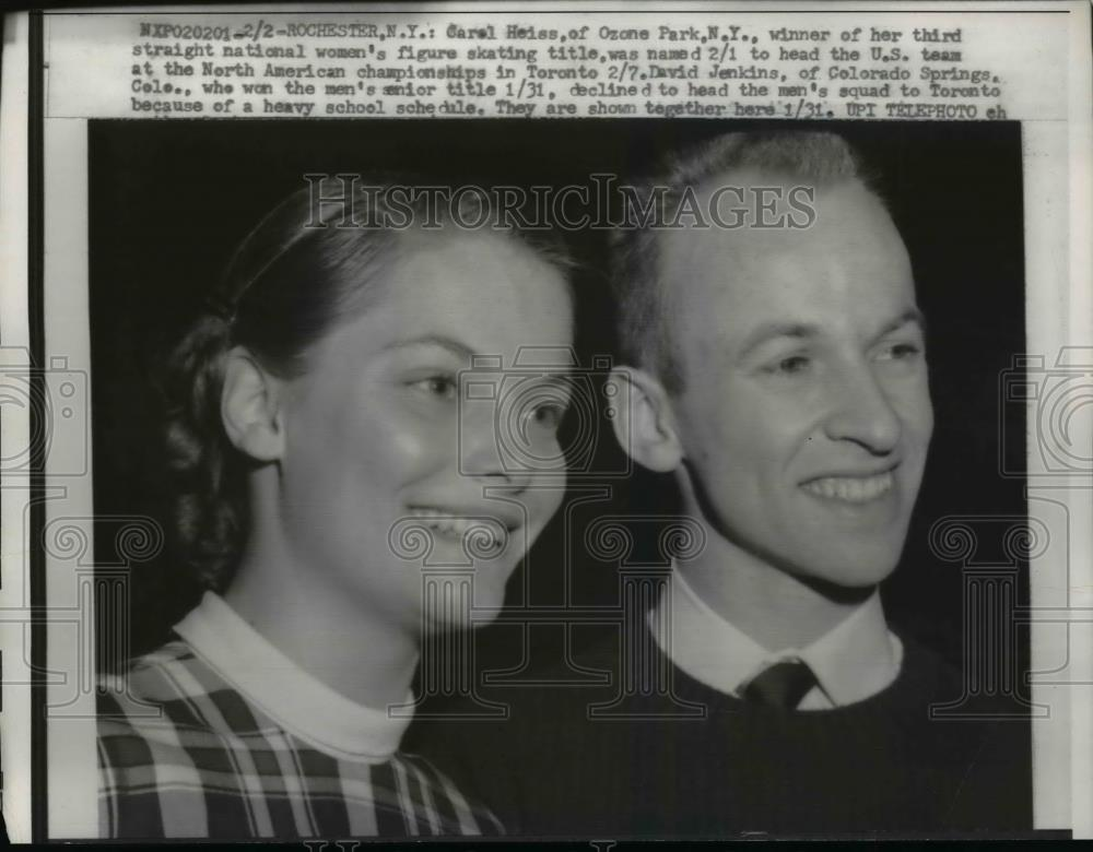 1959 Press Photo Carol Heiss National womens figure skater & David Jenkins